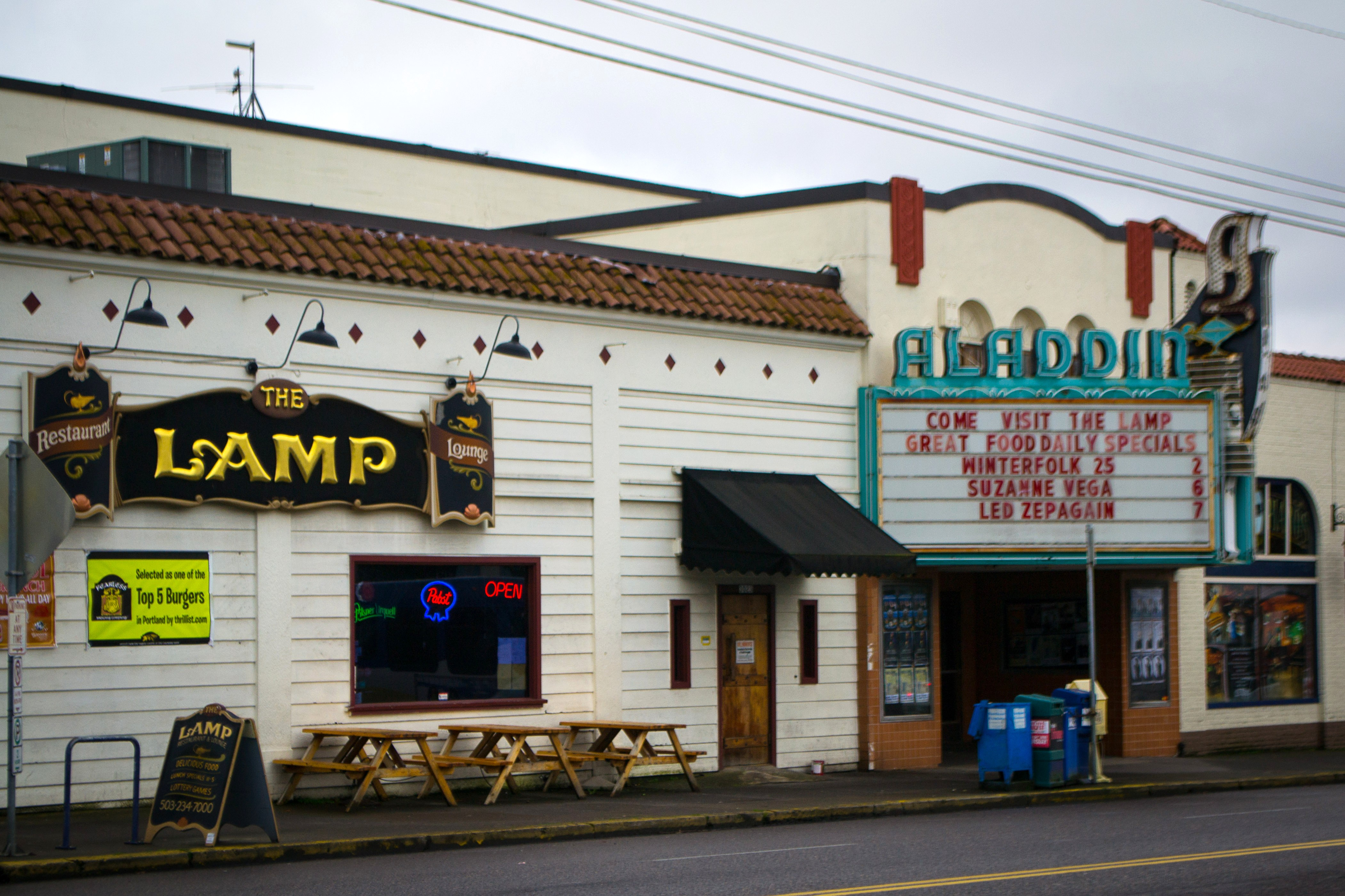 The historic Aladdin Theater building in Southwest Portland.